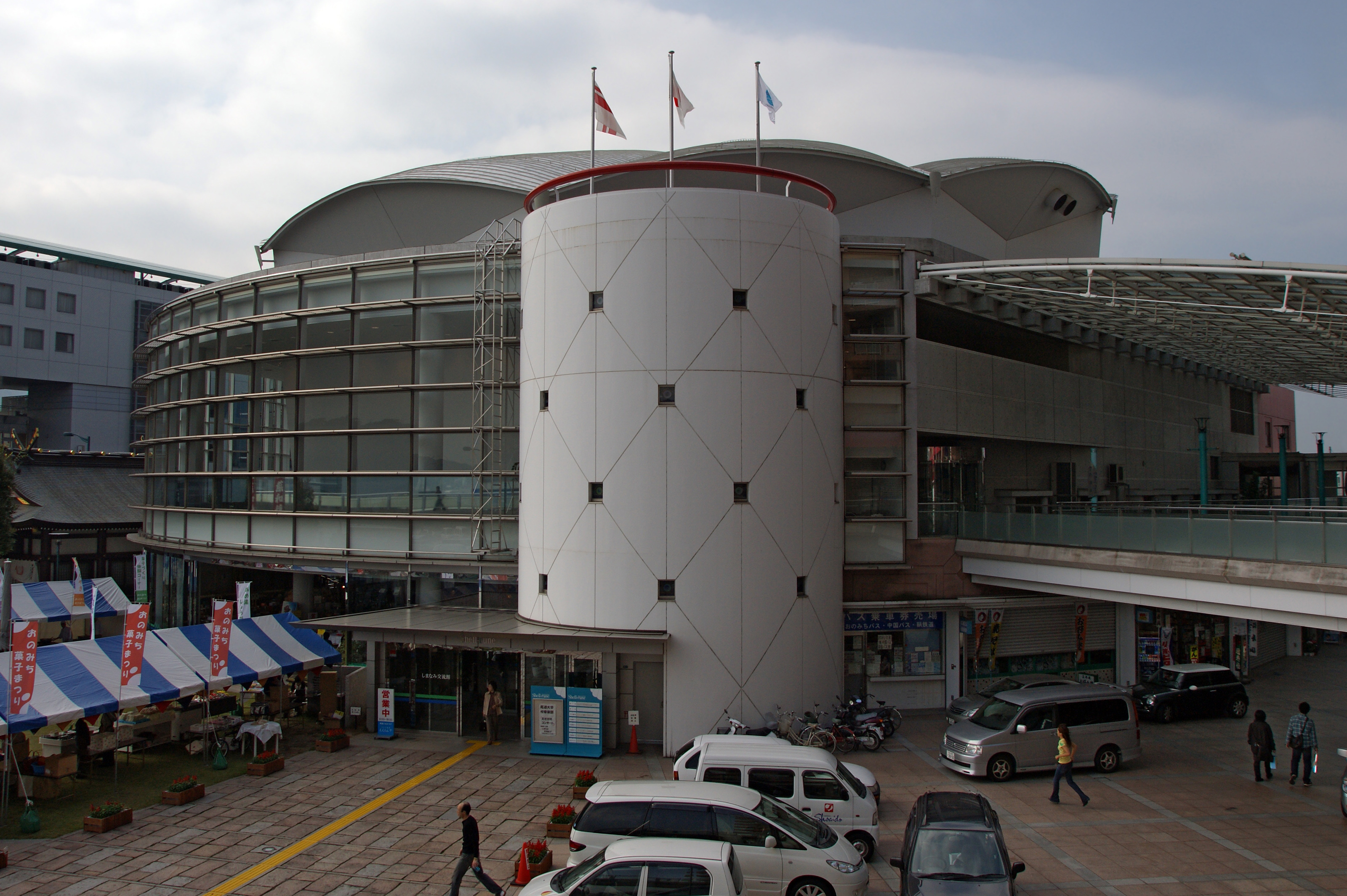 Teatro Shell-rune, Onomichi, Hiroshima prefecture, Japan